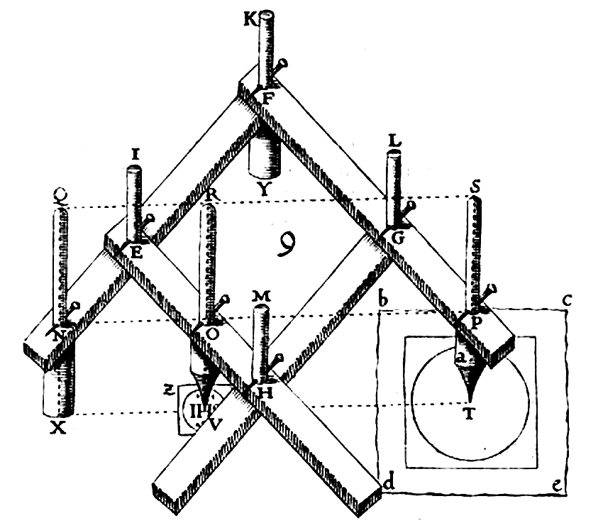 Pantograph, from Book Pantographice seu ars delineandi, Page 29